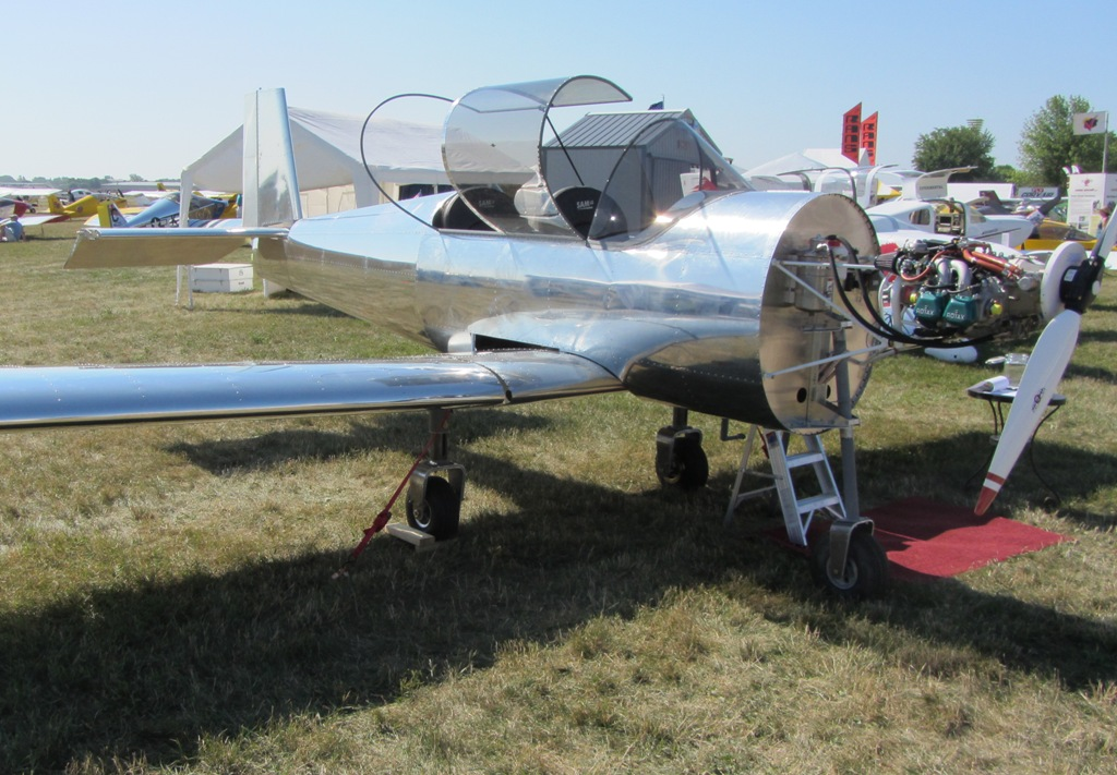 Haim LS